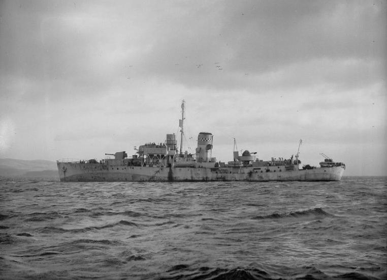 Photograph of British Flower class corvette HMS Orchis (K76) underway in the River Clyde, Scotland.